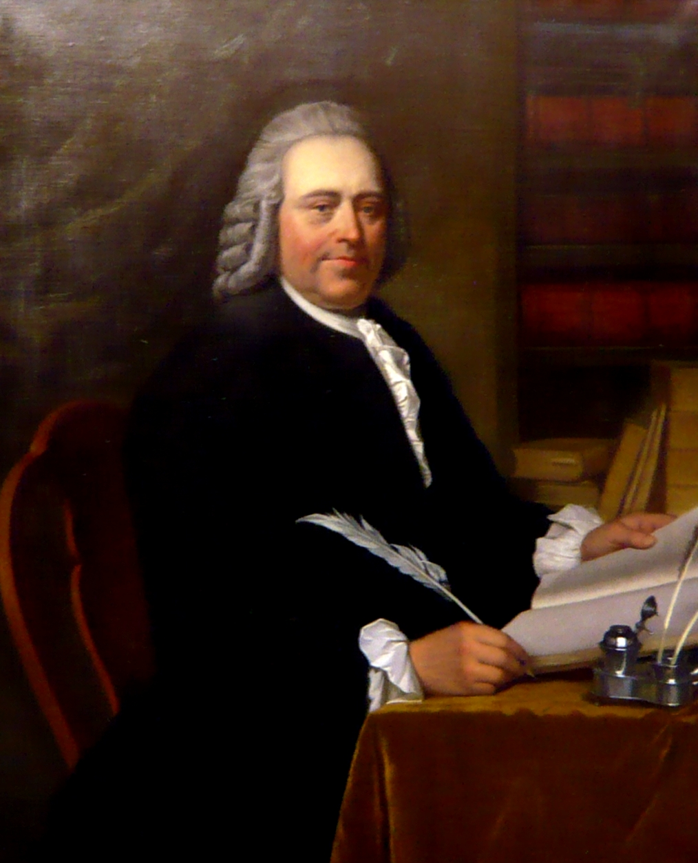 This portrait is a copy of the original by Wybrand Hendriks. The original version hangs in the 'Fundatiehuis' (Foundationhouse), a part of the Teylers Museum not open to the public. For that reason in 1905 this copy was made, which now hangs in the Oval Room of the museum.